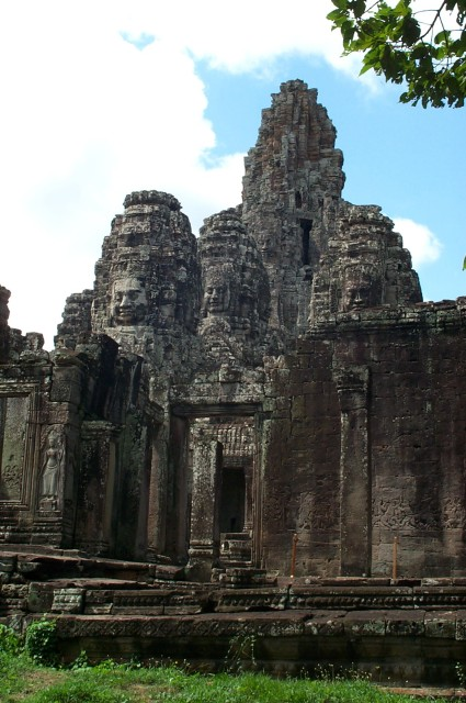 Bayon temple, Angkor Thom